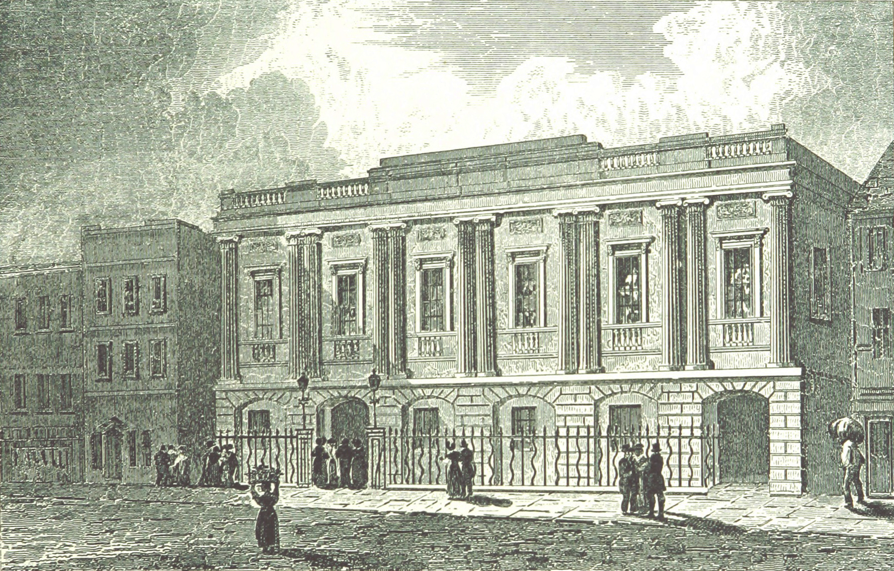 Image extracted from page 329 of The Making of Birmingham: being a history of the rise and growth of the Midland metropolis', by DENT, Robert Kirkup. Original held and digitised by the British Library. Note: The colours, contrast and appearance of these illustrations are unlikely to be true to life. They are derived from scanned images that have been enhanced for machine interpretation and have been altered from their originals.